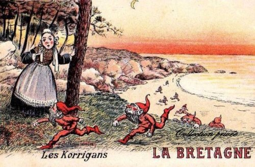 ancient postcard representing Korrigans